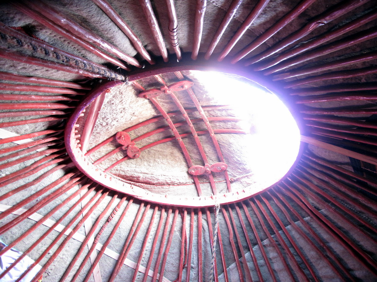 Kyrgyz yurt. Sun-Cross symbolizing Tengri on the Kyrgyz flag.